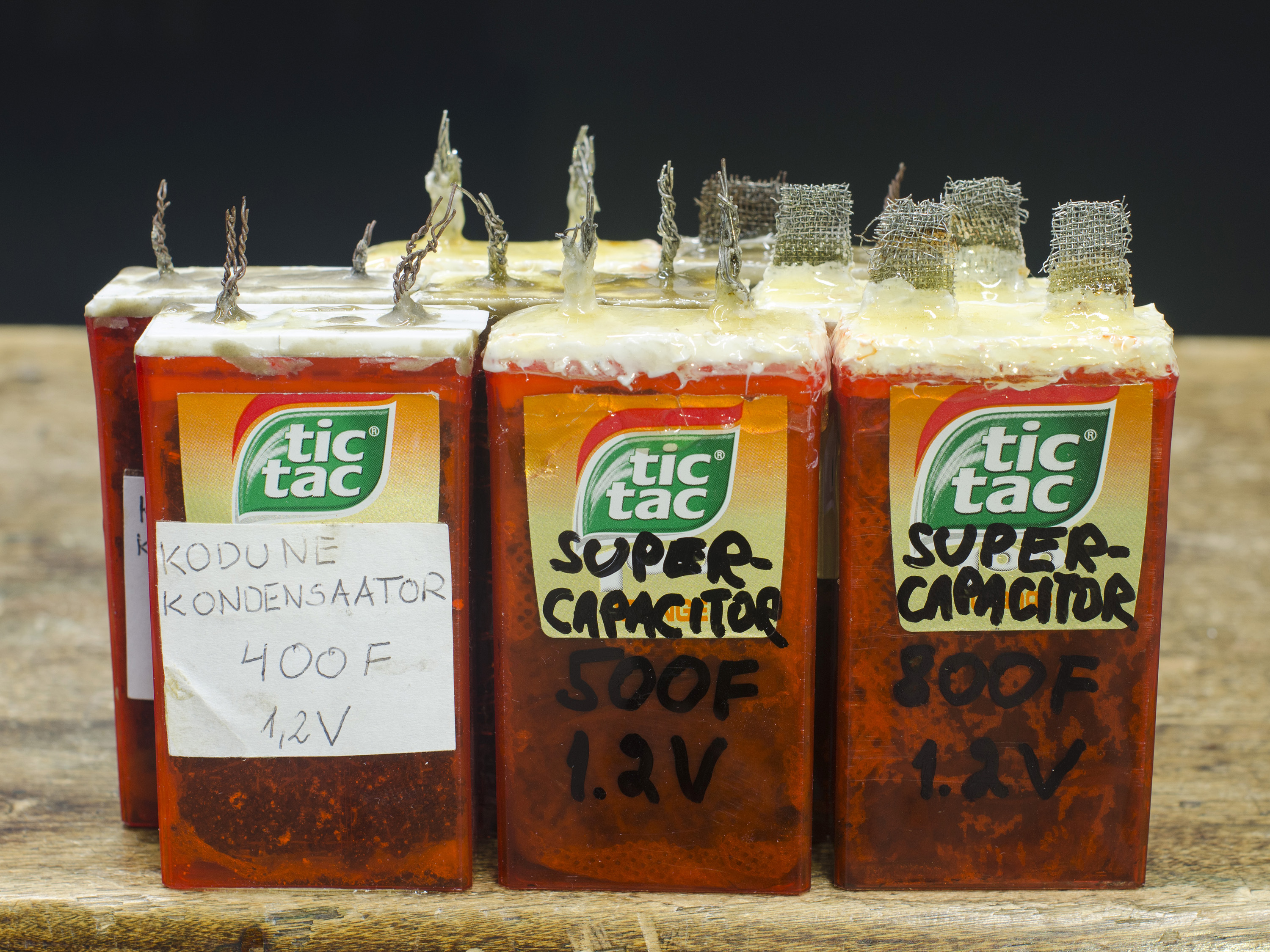 Homemade supercapacitors were created by technique shown in video: The electrodes were created from activated carbon water filter and electrolyte is sewage cleaning liquid.